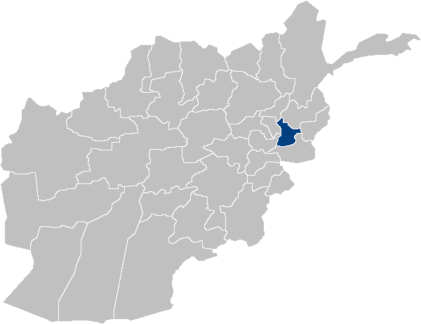 Location map for Laghman Province in Afghanistan. Original map source: Image:Afghanistan_provinces_blank.png